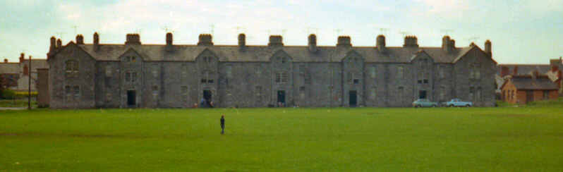 Dun an tSairsealaigh, Luimneach, 1982